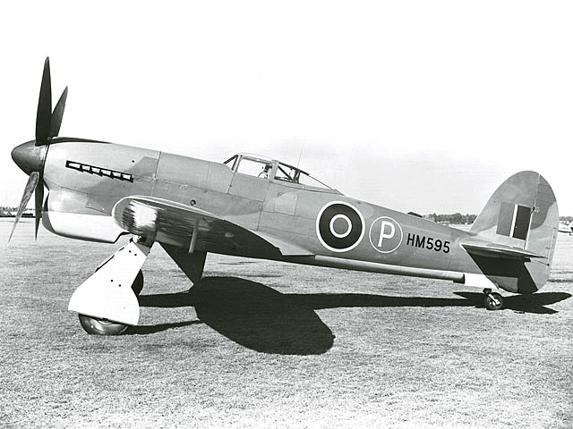 Hawker Tempest